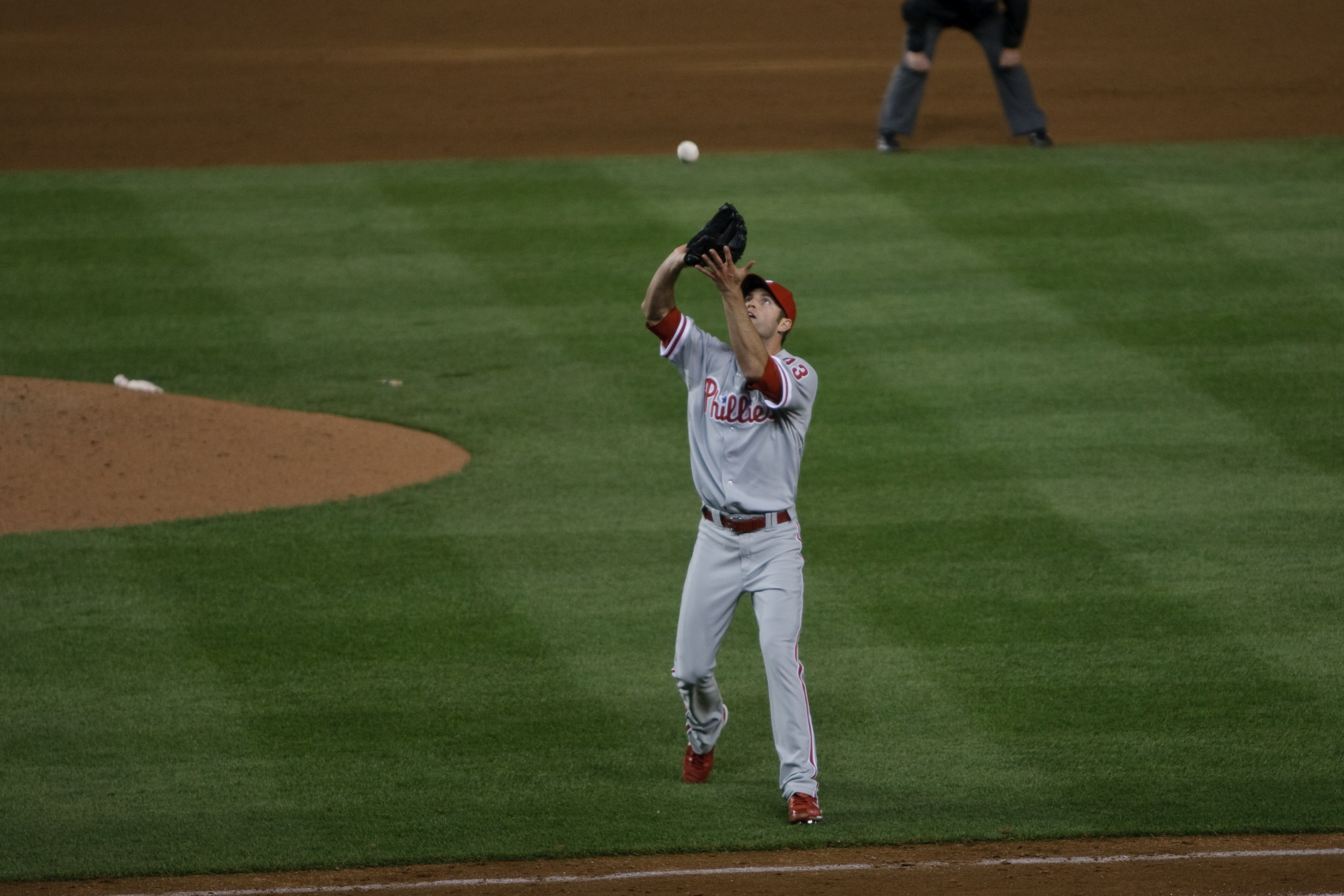 Ronnie Belliard pops out to the Phillies pitcher J. A. Happ.